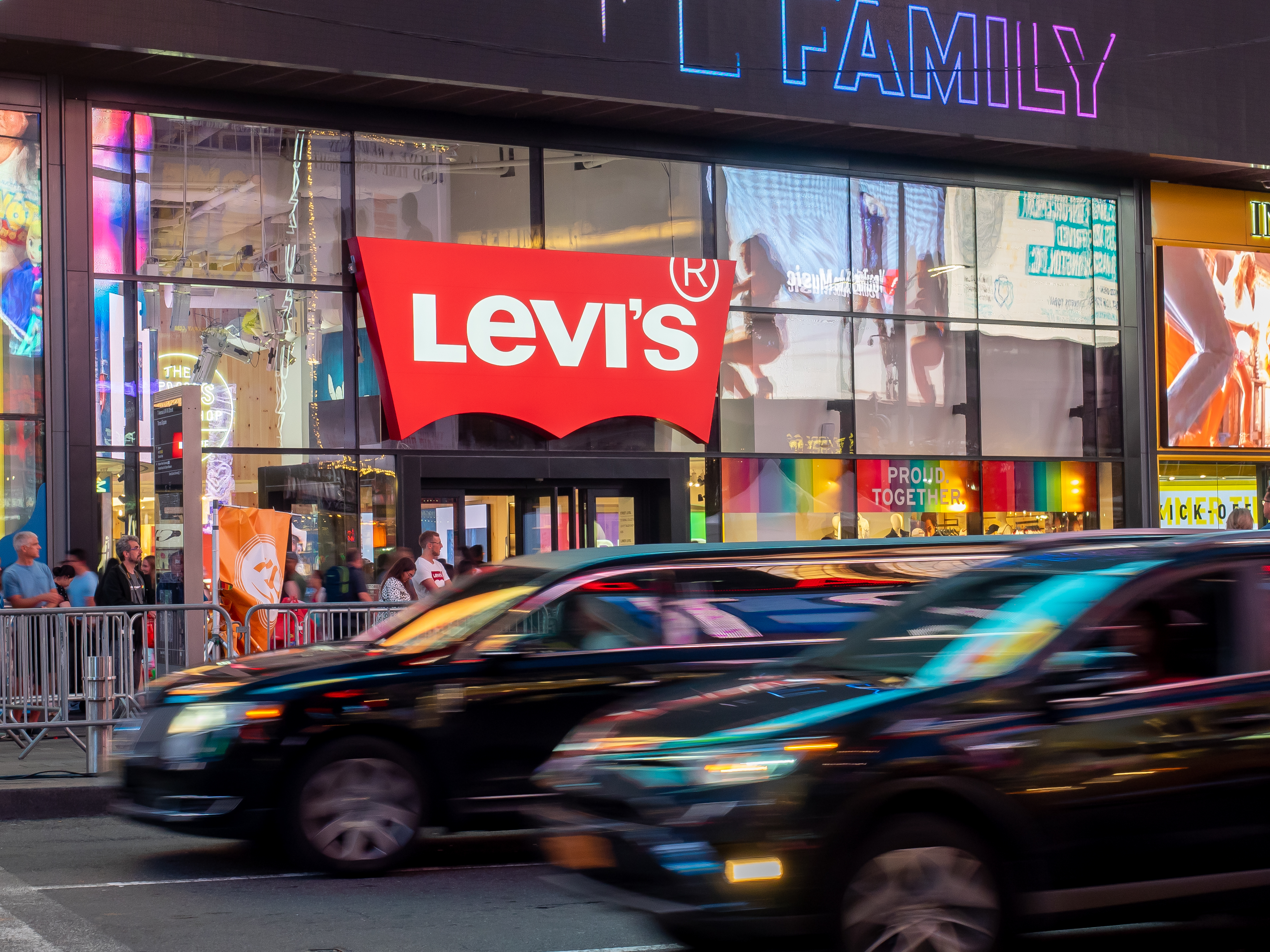 Flagship in Time Square